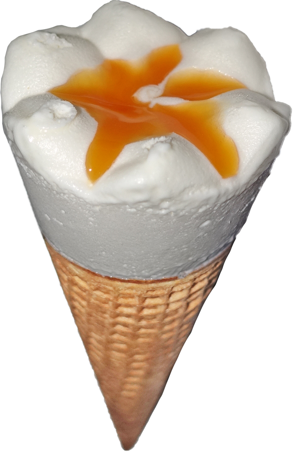 Hartwall Jaffa ice cream cone By Ingman. Made of vanilla ice cream, waffle and orange sausage.